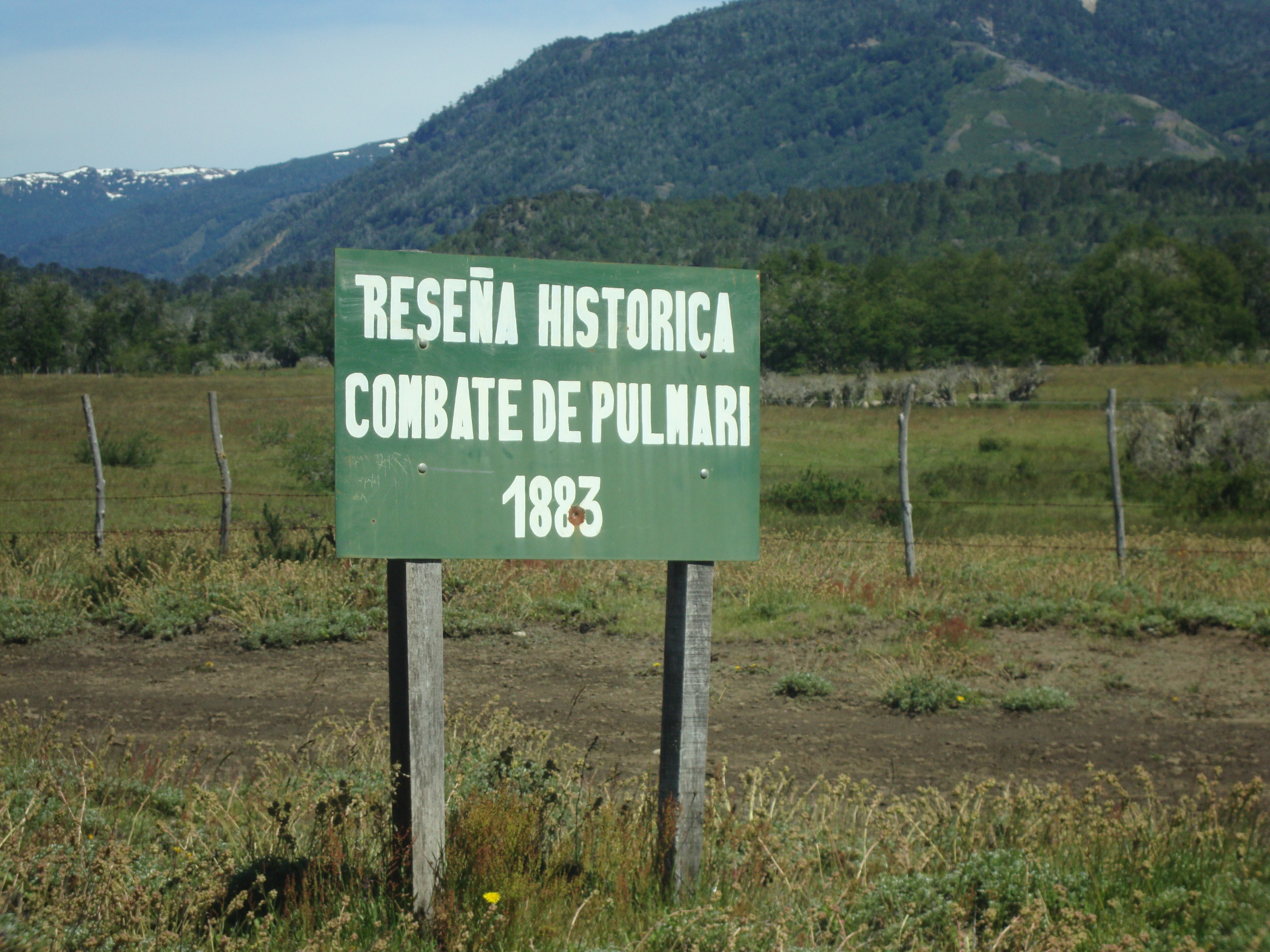 Pulmari Battle scenario.